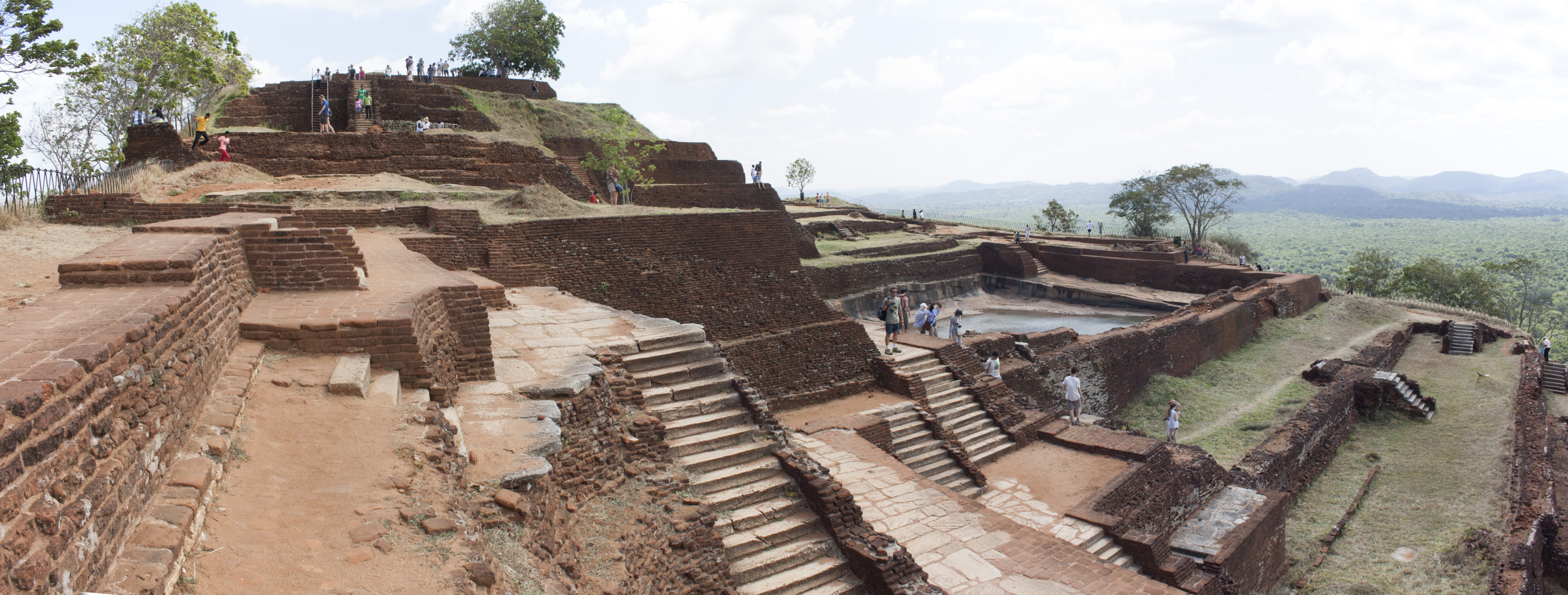 Panorama at the top of Sigiriya